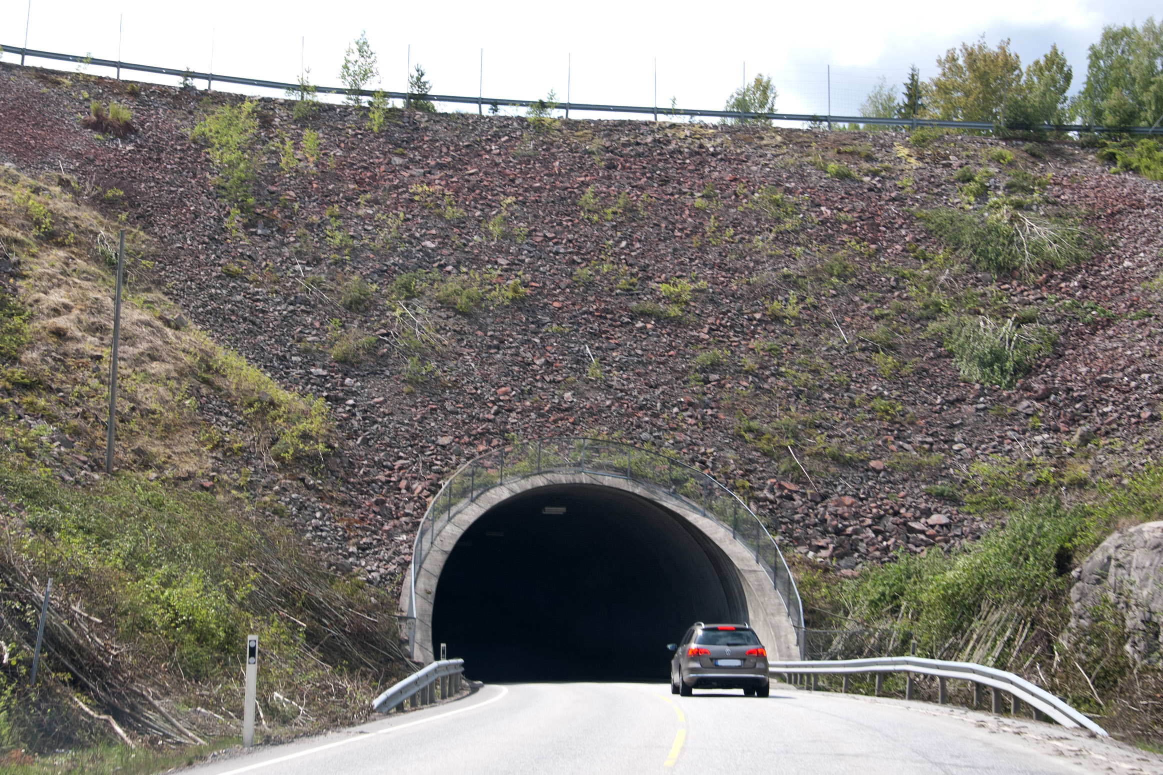 Sannerholttunnelen, a road tunnel on national road 36 in Telemark, Norway.